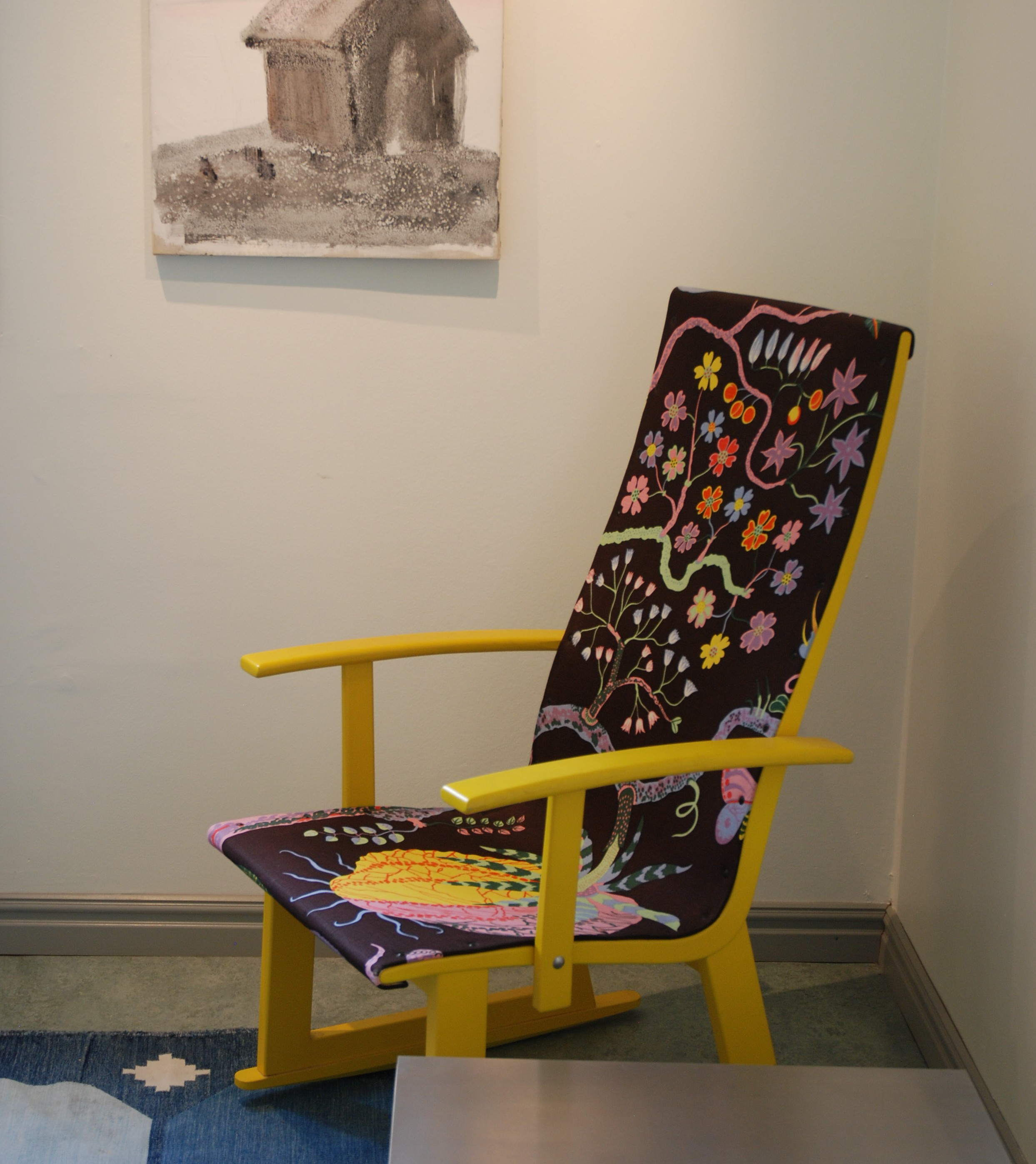 Rocking chair, 2007, by Swedish designer Åke Axelsson